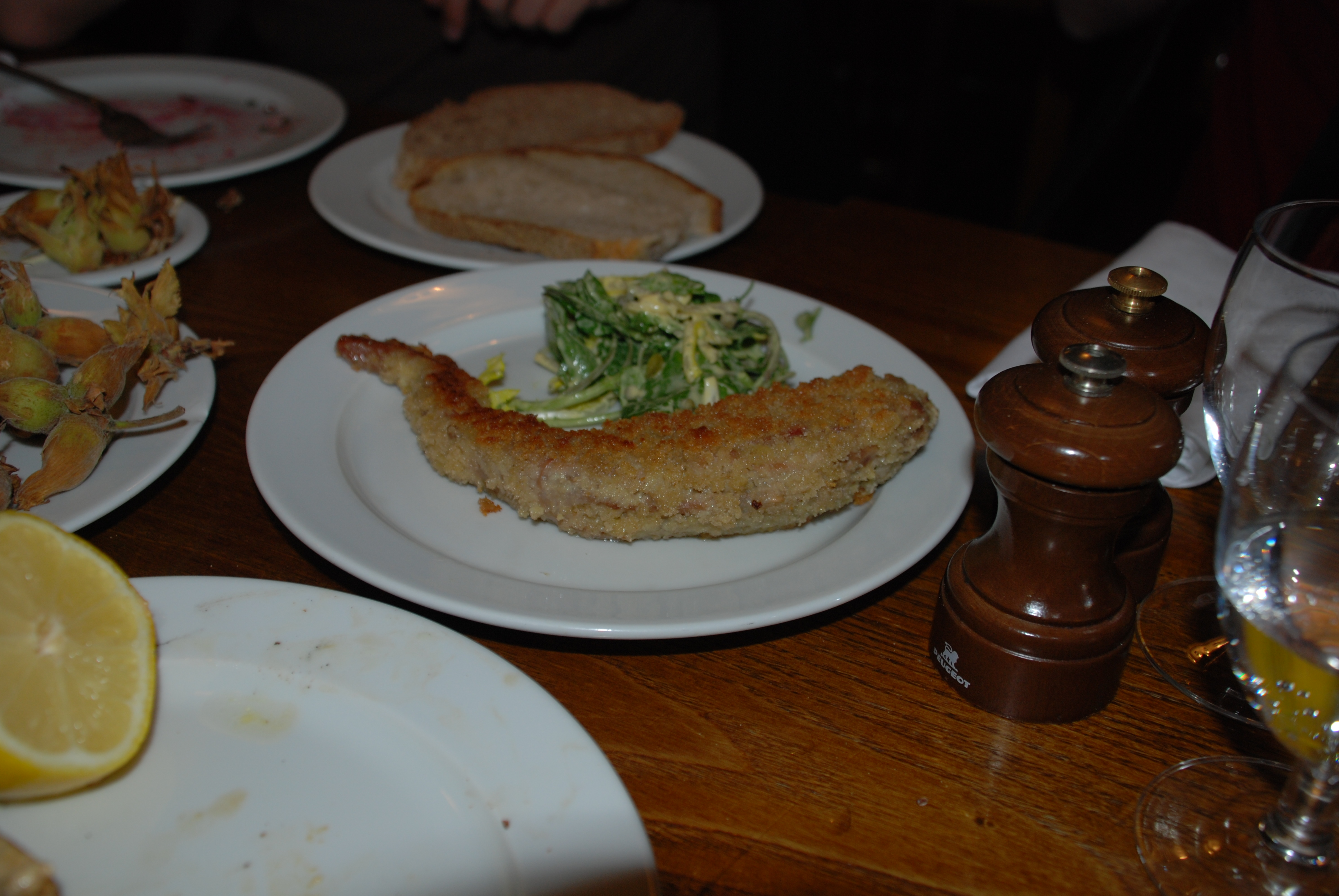 Pig tail, with flash